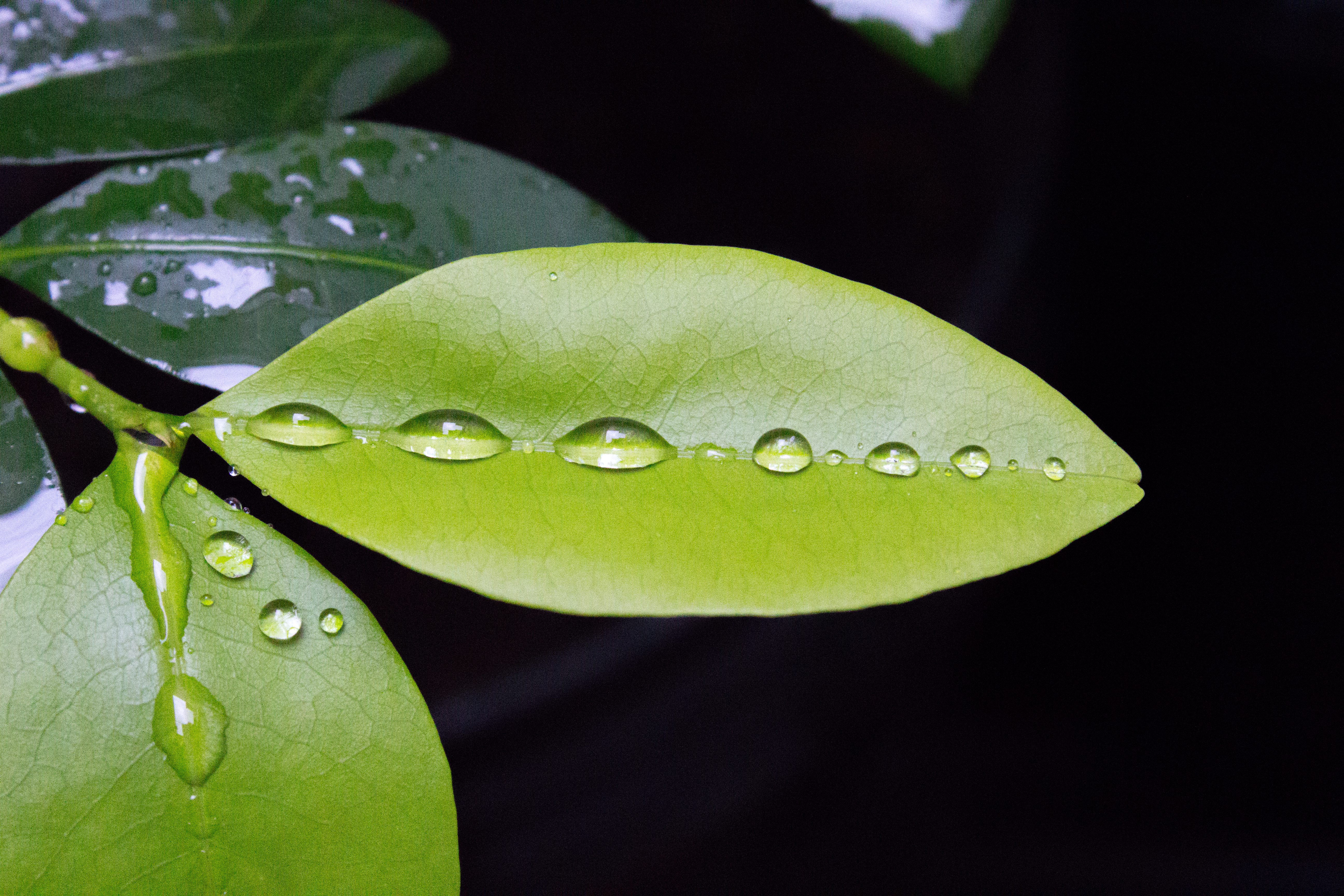 Coca (Erythroxylum coca)